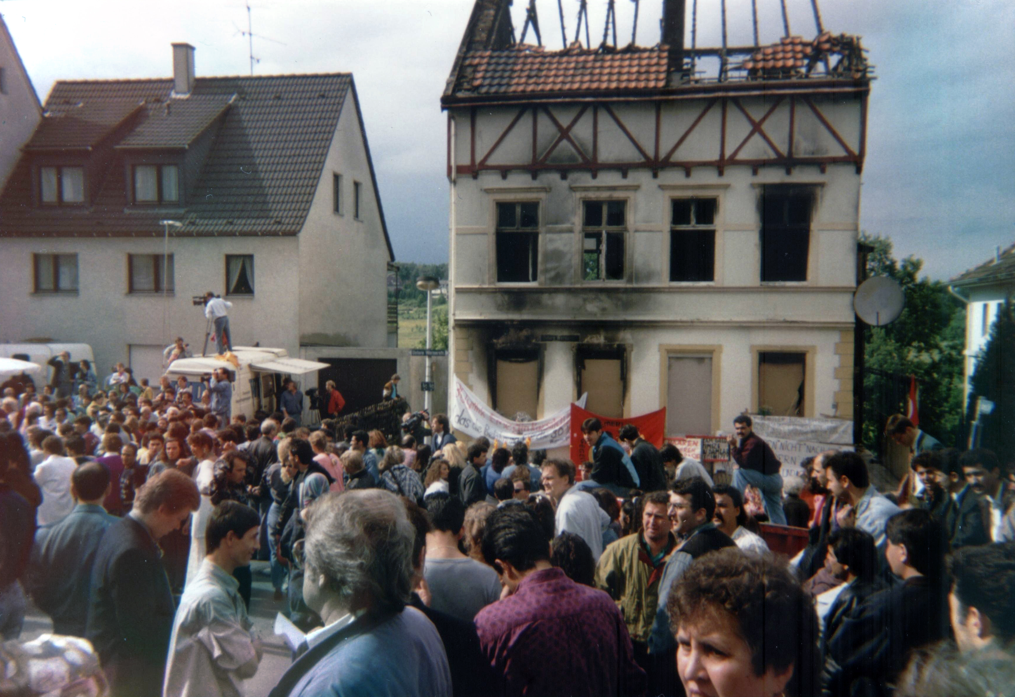 common demonstration of Germans and Turks at the site of the Solingen arson attack of 1993 (May 29, 1993; Untere Wernerstrasse)